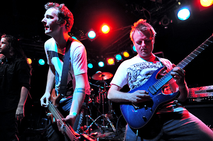 Chaos Divine @ Amplifier Bar (15/10/11)